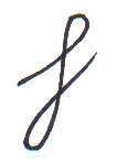 Lower case h in gothic script or lower case long s in latin script